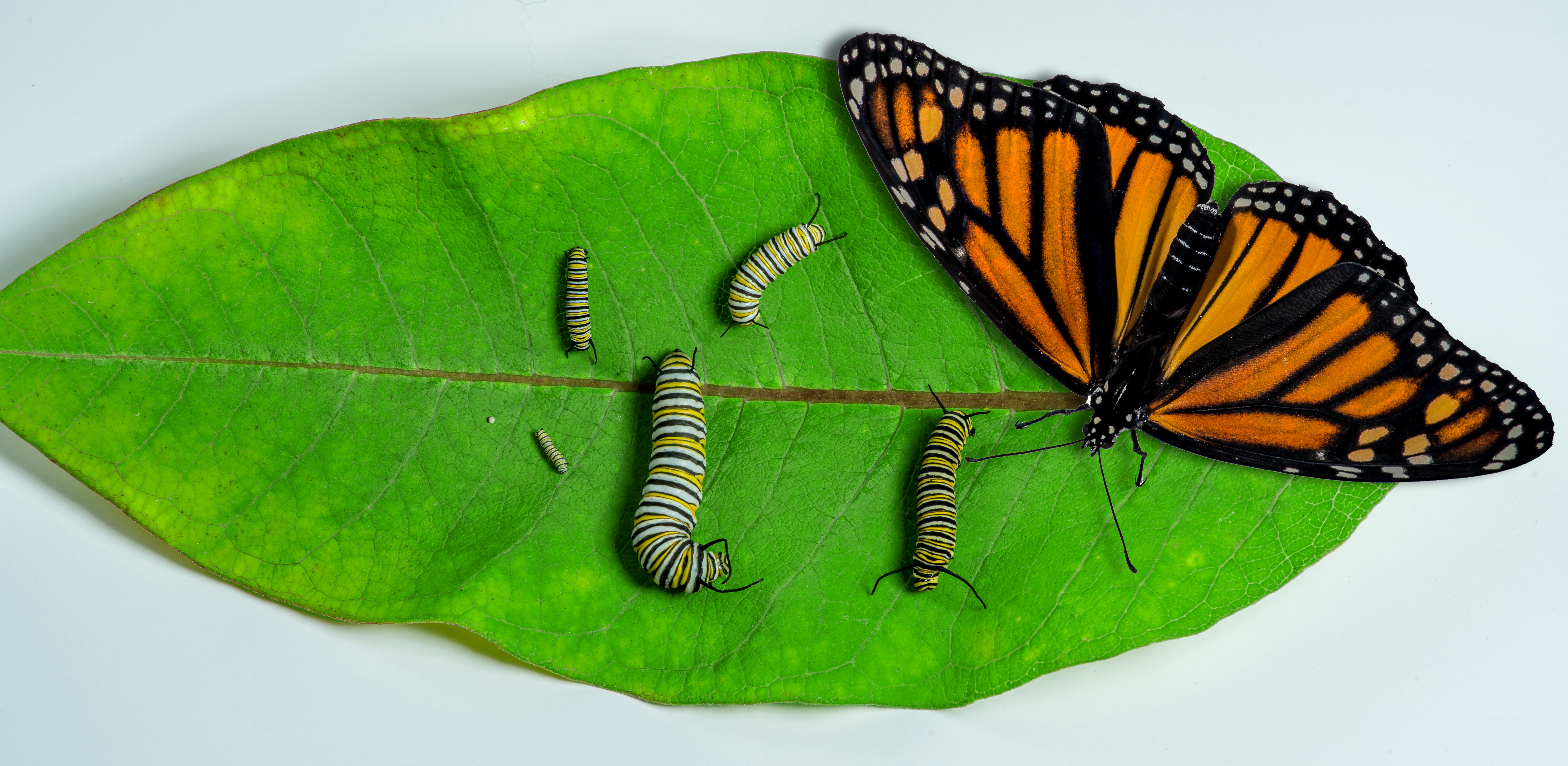 From egg to larva to pupa, and then to a beautiful butterfly - such is the metamorphosis of the monarch. The monarch butterfly is one of the most recognizable species of wildlife in all of America. They undertake one of the world’s most remarkable and fascinating migrations, traveling thousands of miles over many generations from Mexico, across the United States, to Canada. North American monarch butterflies are in trouble. Threats, including loss of milkweed habitat needed to lay their eggs and for their caterpillars to eat, are having a devastating impact on their populations and the migration phenomenon. Unless we act now to help the Monarch, this amazing animal could disappear in our lifetime. The state of Monarchs reflects the health of the American landscape and its pollinators. Monarch declines are symptomatic of environmental problems that also pose risks to food production, the spectacular natural places that help define our national identity, and our own health. Conserving and connecting habitat for monarchs will benefit many other plants and animals, including critical insect and avian pollinators, and future generations of Americans. Photo credit: NCTC Creative Imagery/USFWS